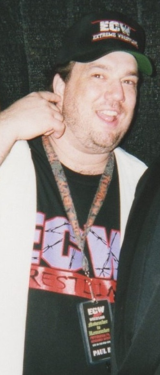 Professional wrestling personality Paul Heyman in October 1998.